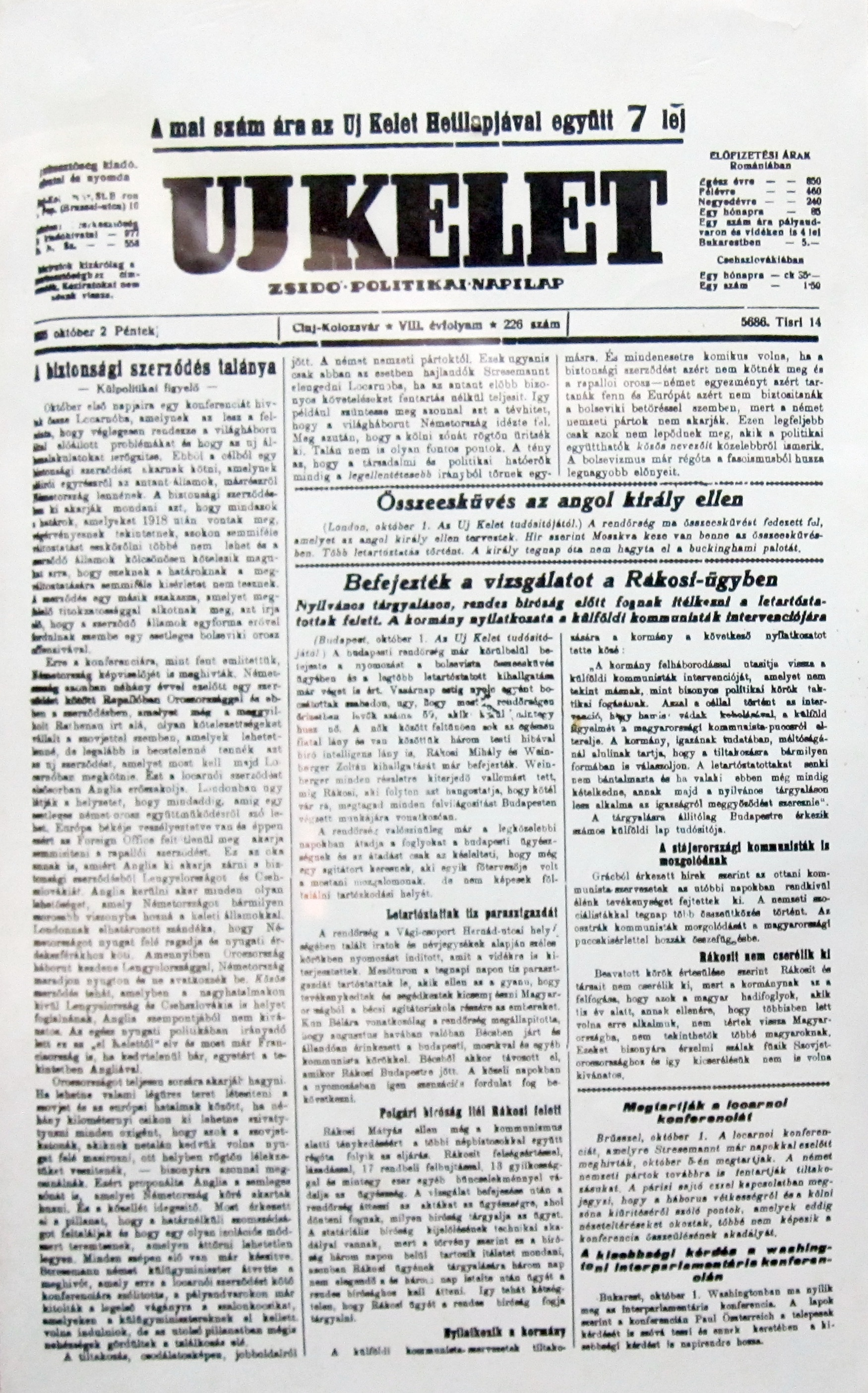 Uj Kelet Hungarian zionist newspaper (1925) published in 1919 and appeared until 1940, when it was baned by the fascist government In 1948 it resumed publication in Tel Aviv